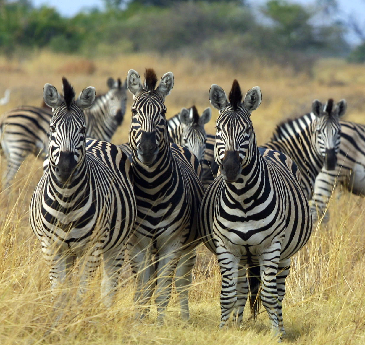 Plains Zebras (Equus quagga), more specifically the Chapman's subspecies (Equus quagga chapmani) in Okavango, Botswana in 2002.